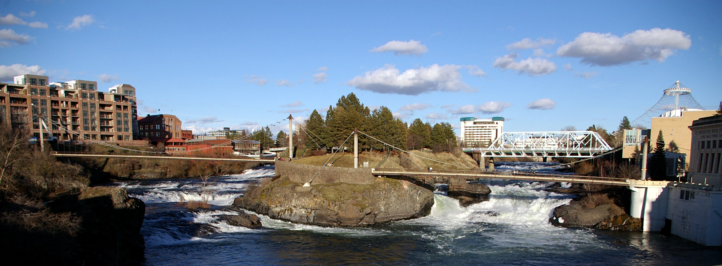 The Upper Spokane Falls, photographed from the Post Street bridge